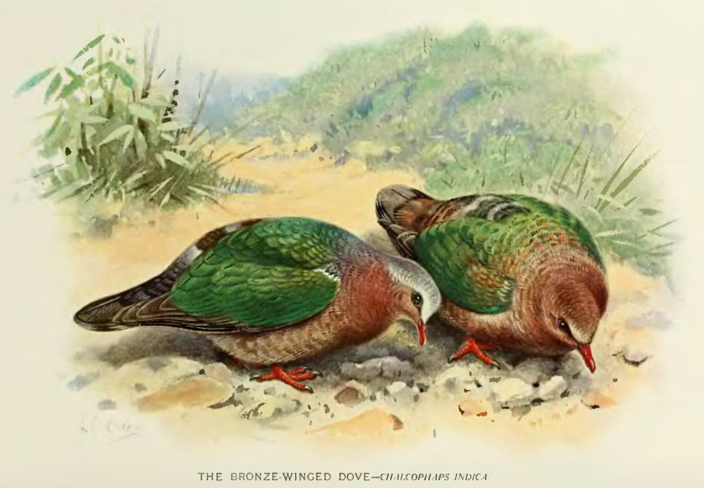 Chalcophaps indica